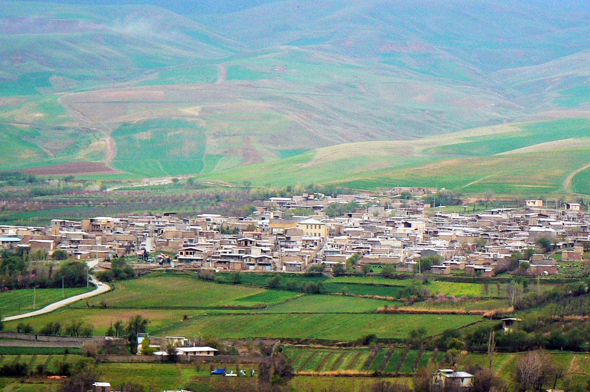 A view of Fial village, SW Borujerd, Iran